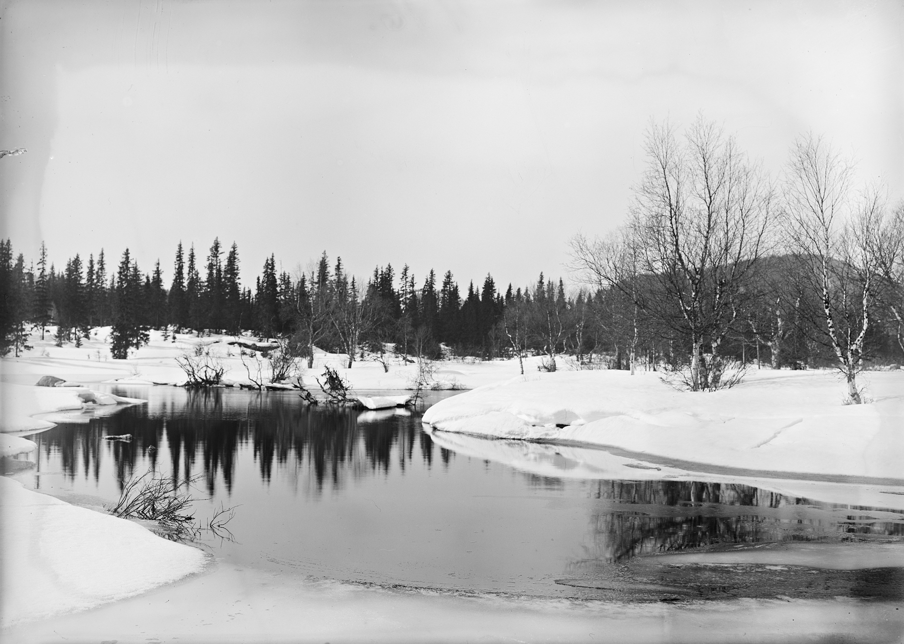 Tittel / Title: Mesna. Vand / Mesnavand / Mesnavann Motiv / Motif: Glassnegativ 13x18 Dato / Date: 1880-1913 Fotograf / Photographer: Robert Collett (1842-1913) Sted / Place: Oppland, Lillehammer, Mesna Eier / Owner Institution: Nasjonalbiblioteket / National Library of Norway Lenke / Link: Bildesignatur / Image Number: bldsa_r496